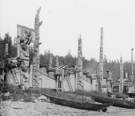 Skidegate Indian Village of the Haida tribe. Skidegate Inlet, British Columbia, Canada.